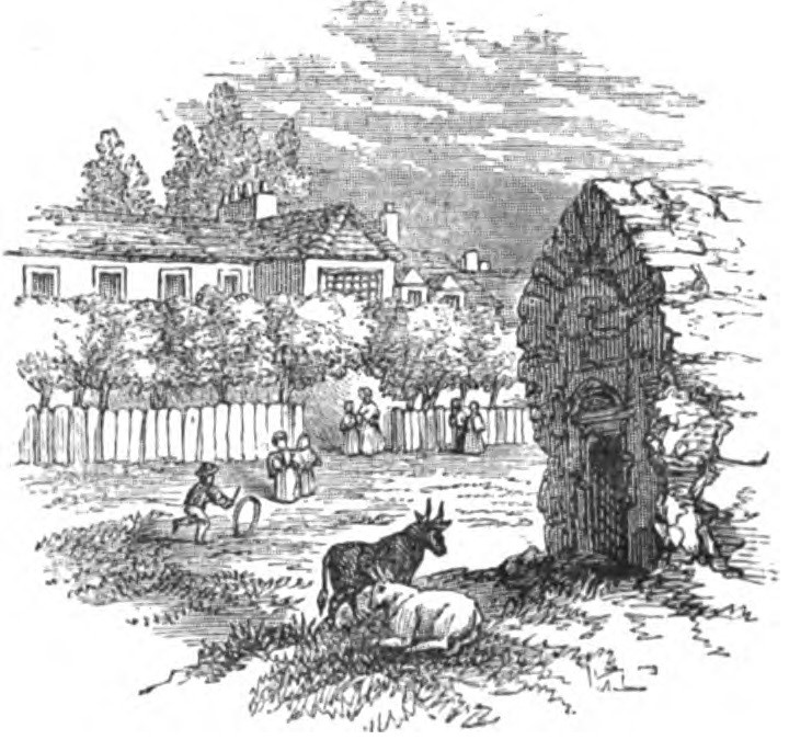 White Conduit House, 1827 (Robert Chambers, p.73, 1832)